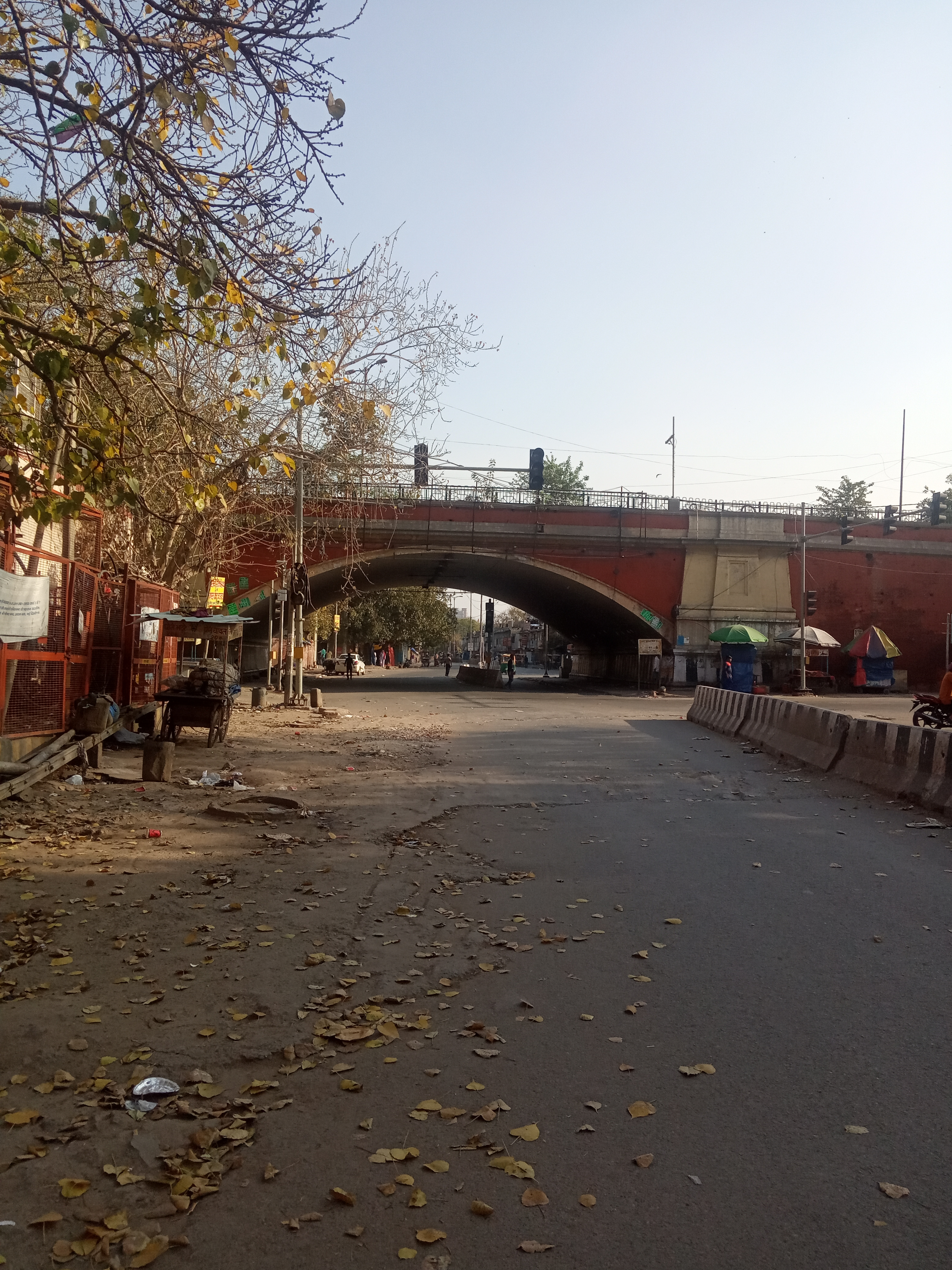 Effect of Janata curfew road near New Delhi railway station